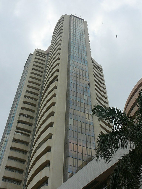 The Phiroze Jeejeebhoy Towers houses the Bombay Stock Exchange.